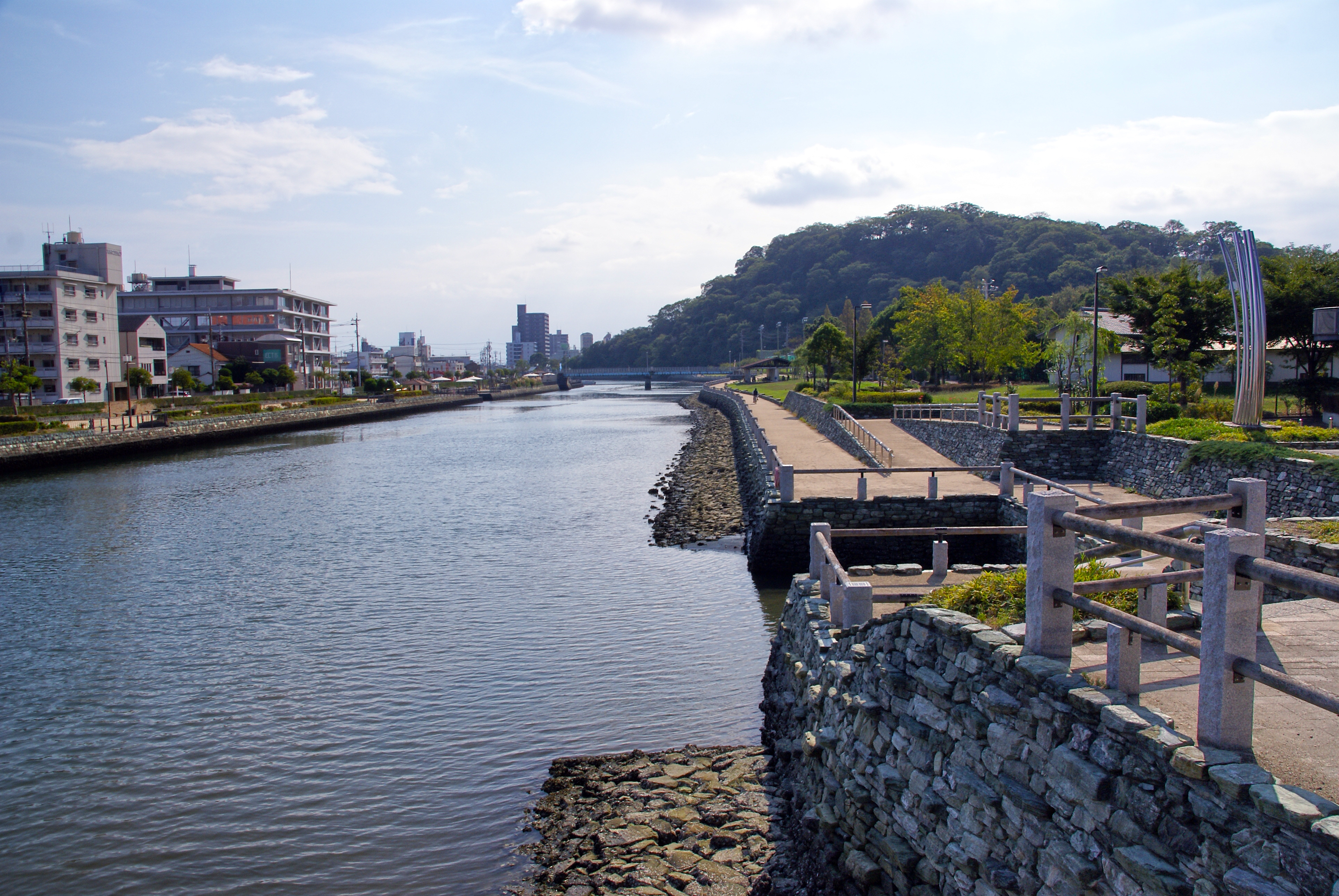 Suketo River in Tokushima, Tokushima prefecture, Japan